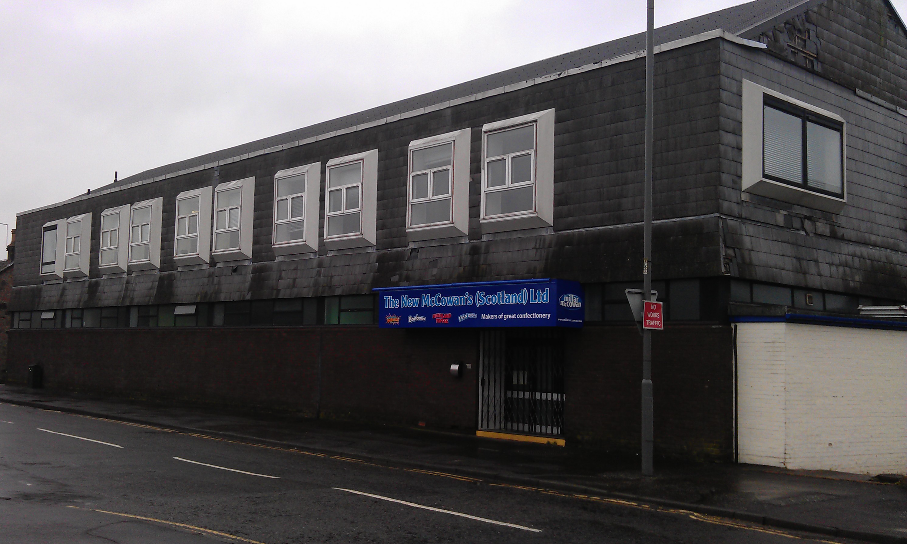 Photograph of McCowan's Toffee Factory shortly after its closure